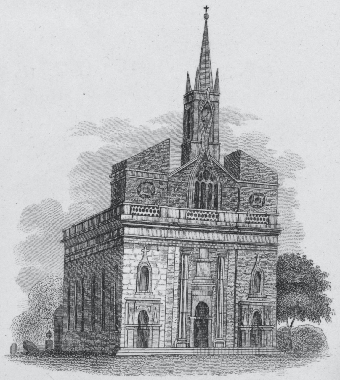 Etching of St. Patrick's Old Cathedral on Mott Street in Little Italy, Manhattan, New York City, before its demolition and reconstruction in 1840